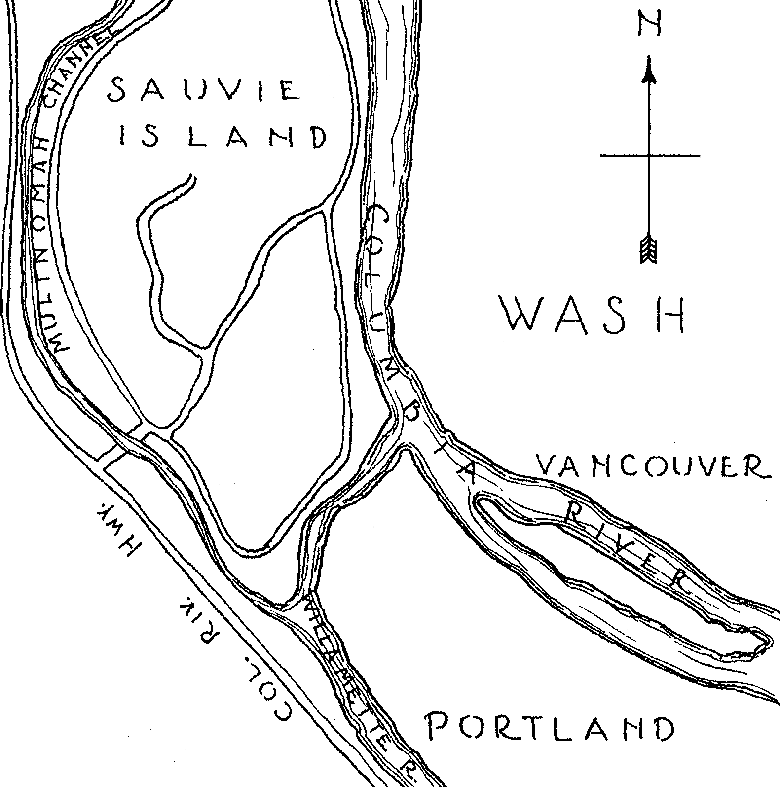 Sketch map of Sauvie Island, Drawn June 30, 1937.